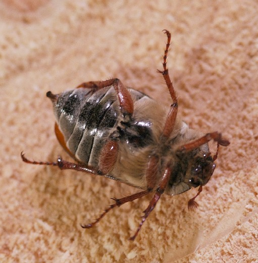 Melolontha hippocastani, female